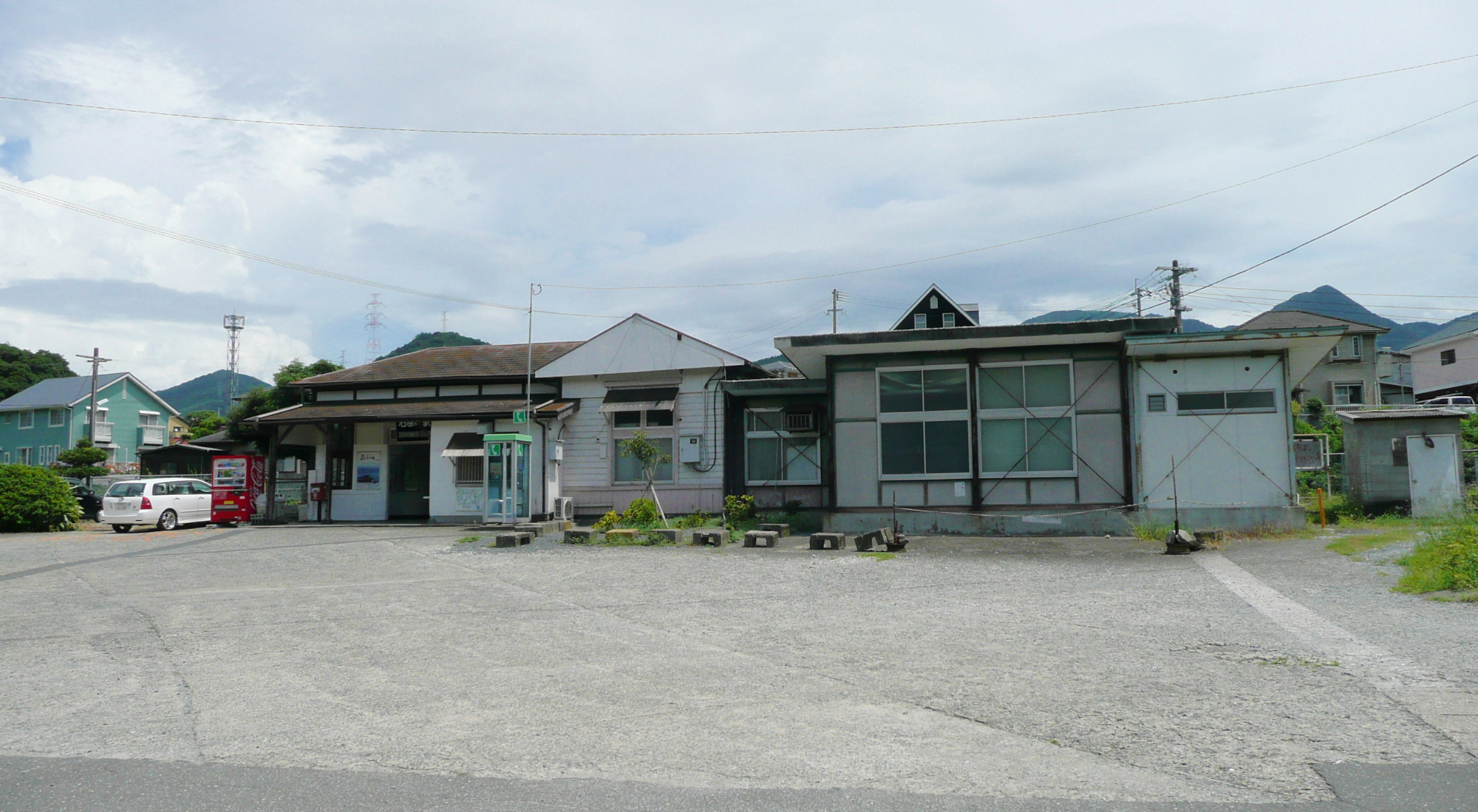 Ishiharamachi Station,Hita-Hikosan line.